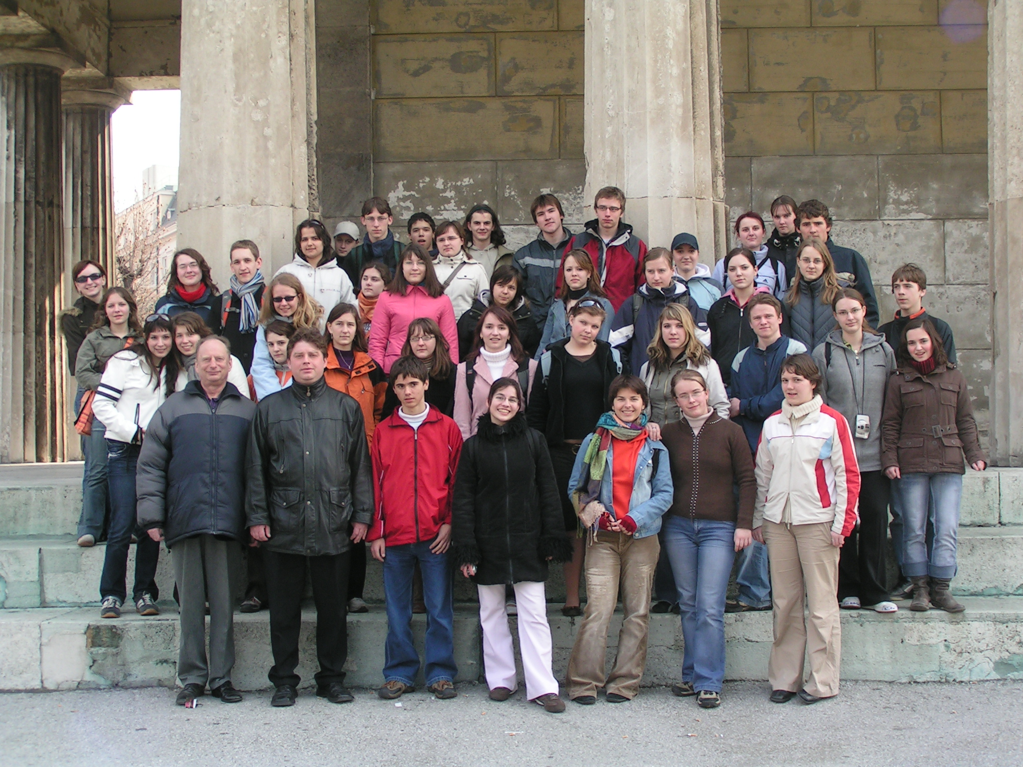 Chorus AVE, Austria 2007